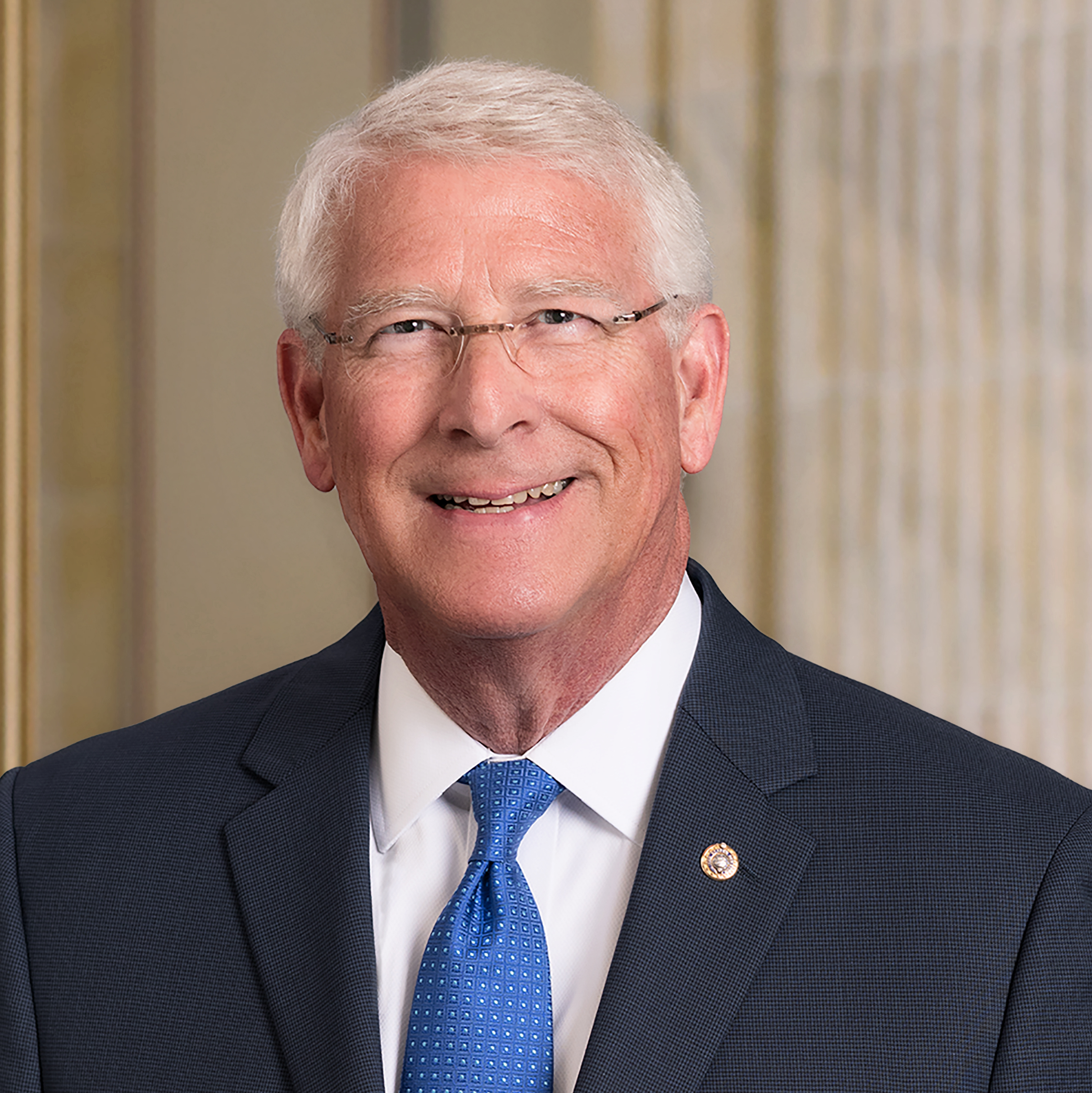 Roger F. Wicker, U.S. Senator from Mississippi, official photo 2018